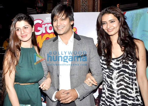 Team of 'Grand Masti' at Lalitya Munshaw's album launch